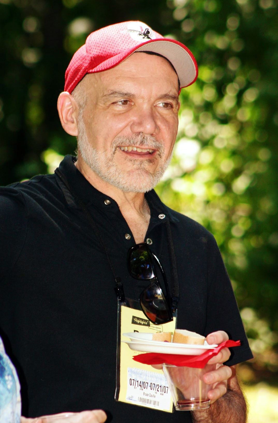 Author of children's books such as "My Teacher is an Alien"